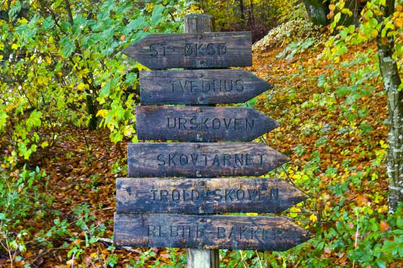 Rold Forest, Denmark, Roadsign